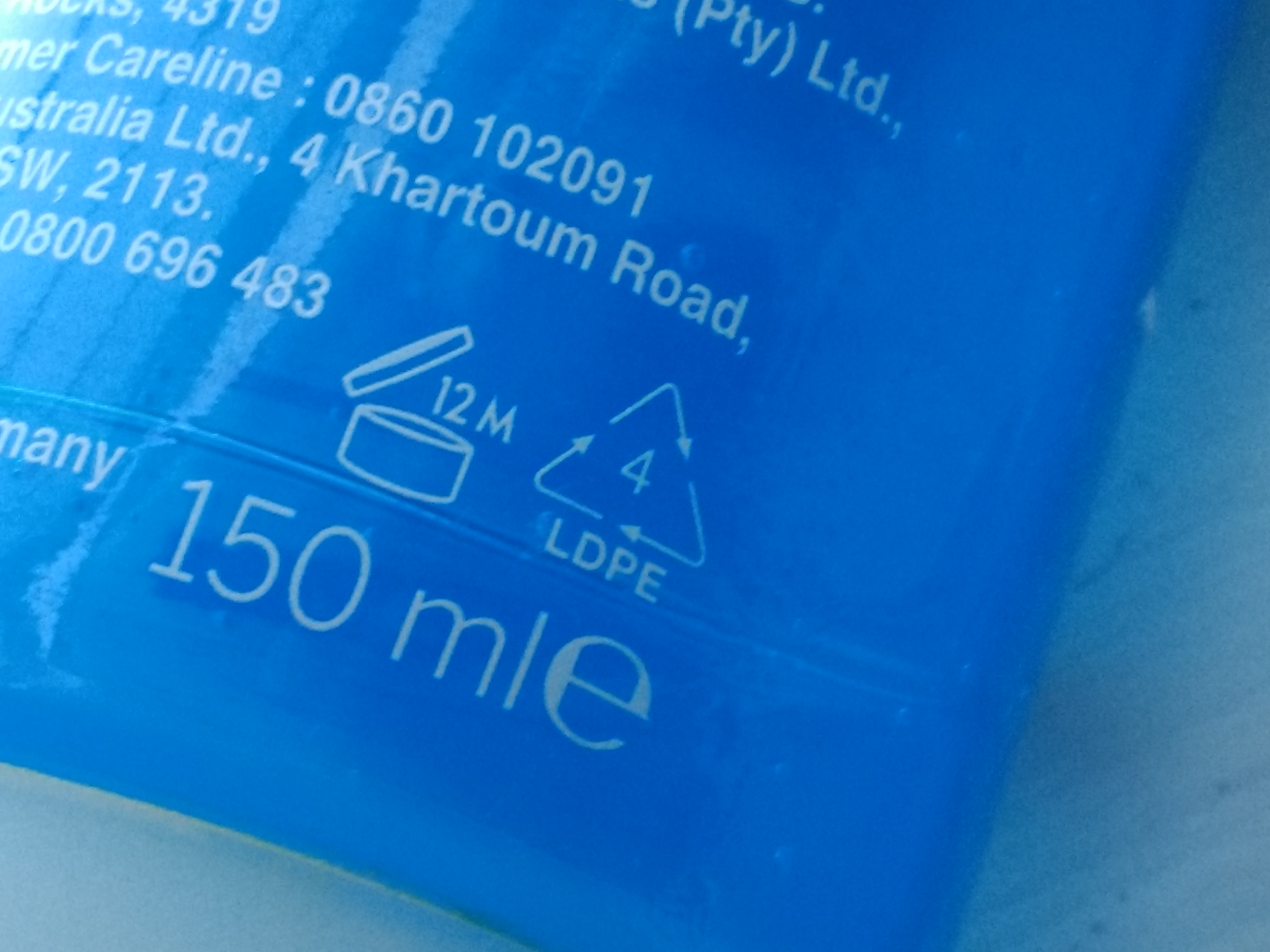 Facial wash gel bottle made of LDPE for the Wikipedia page of Low-density polyethylene